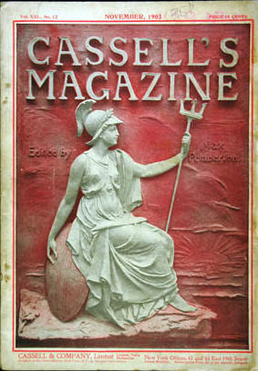 Cover of Cassells Magazine (1903)